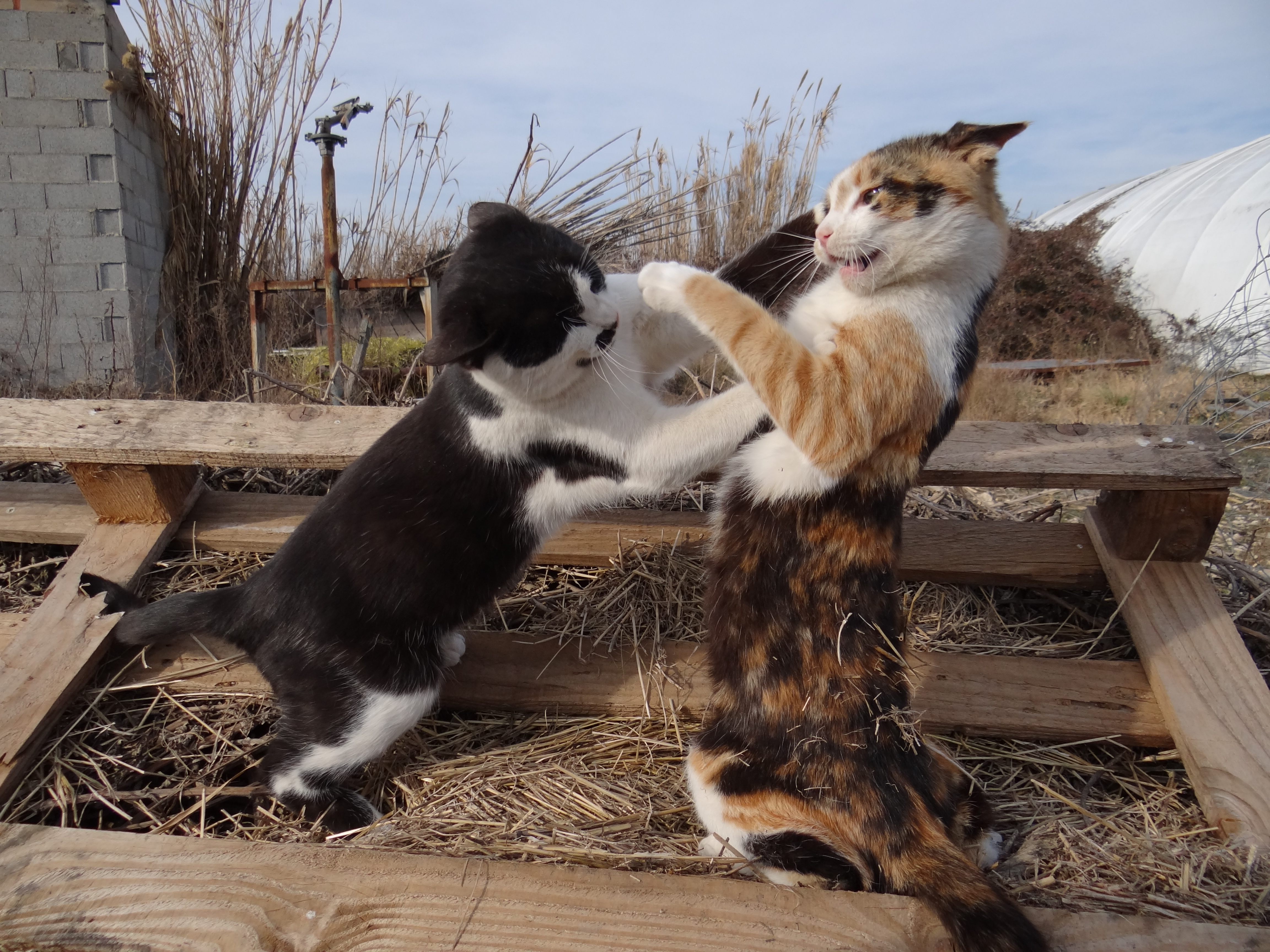 Fighting cats